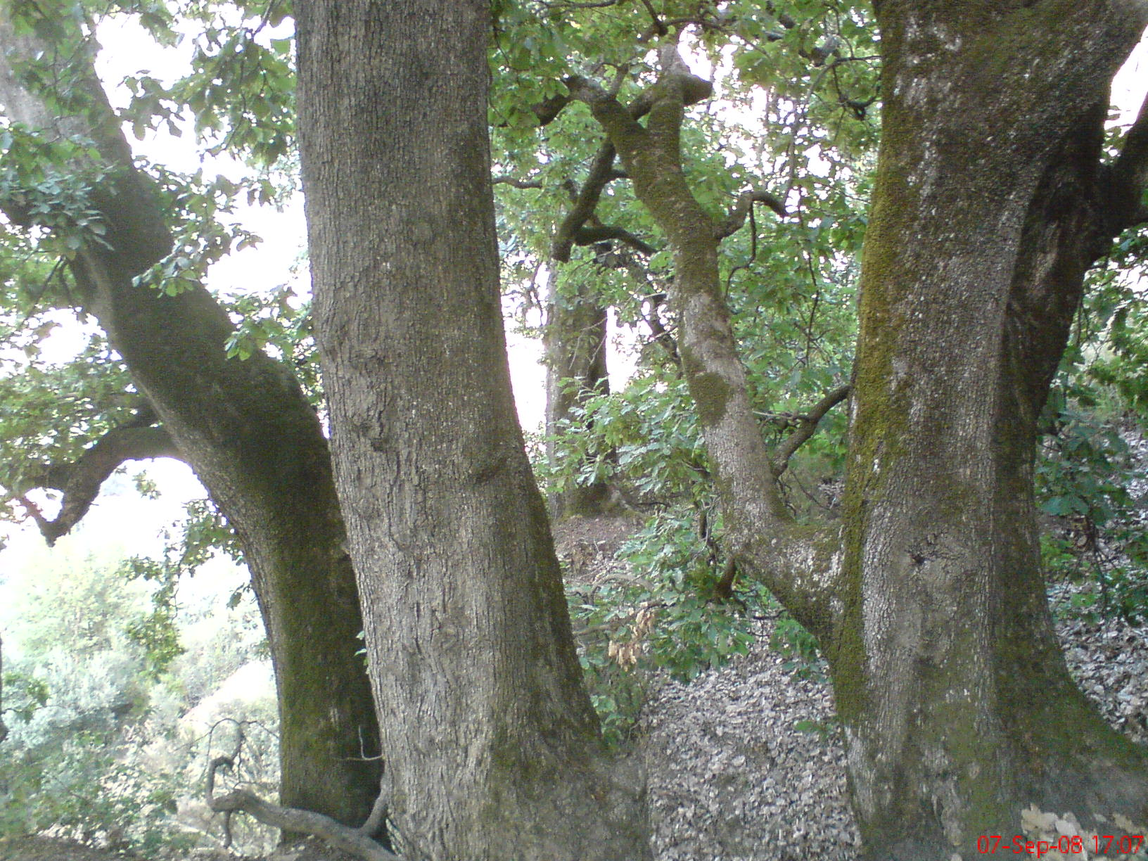 Assif El Hammam (Adekar, Algerie).